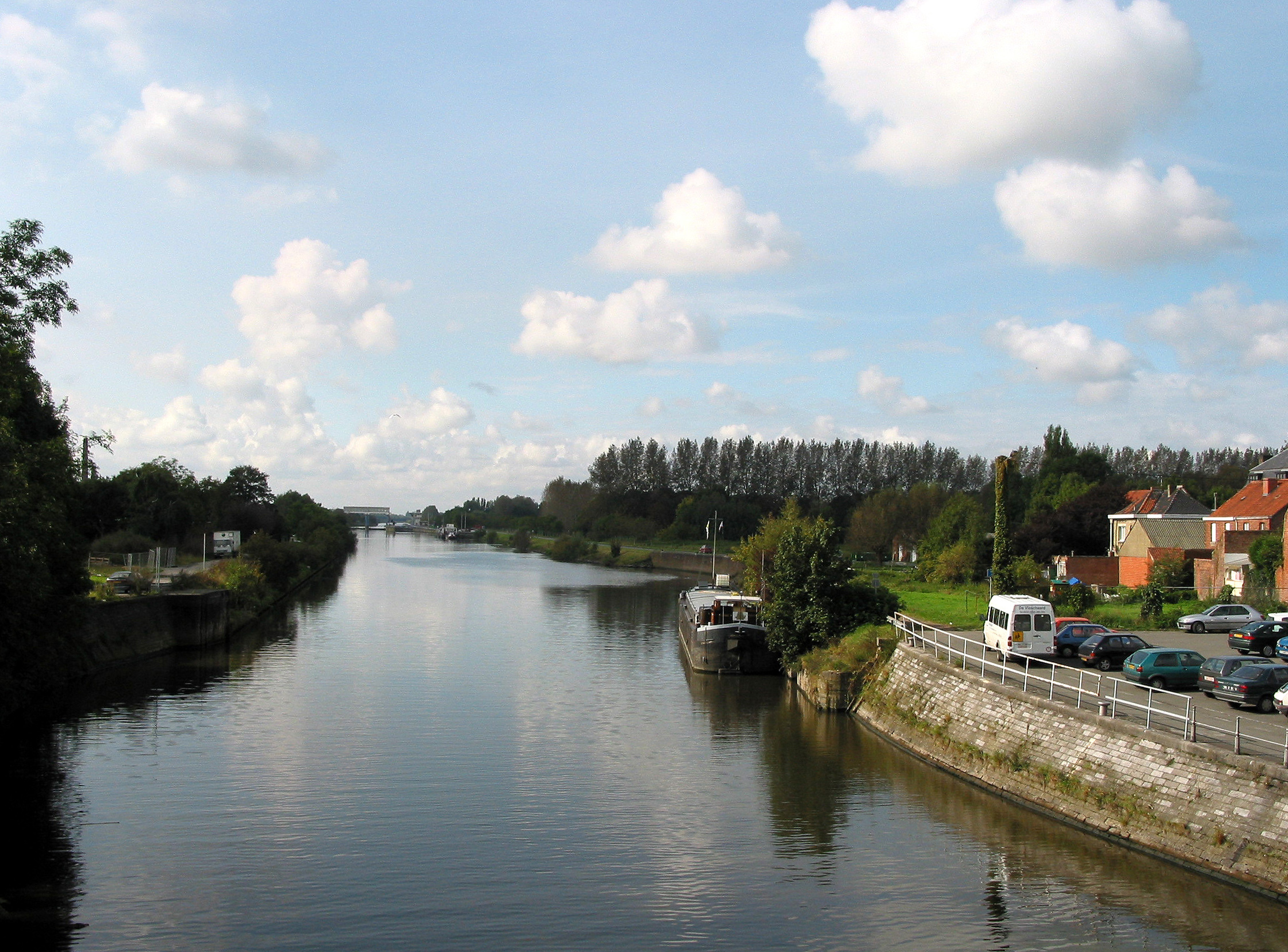 Comines (Belgium) the Lys river